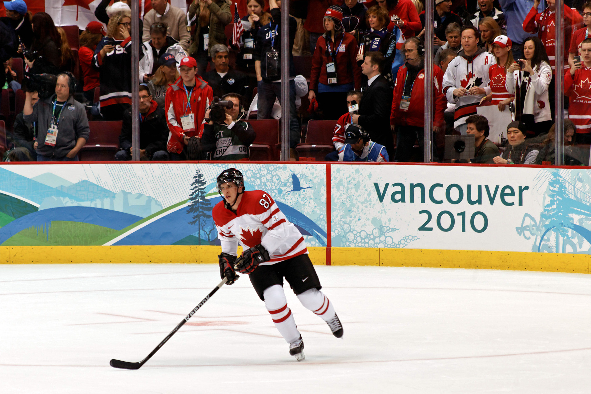 Canada forward Sidney Crosby warms up before the gold medal game against the United States during the 2010 Winter Olympics